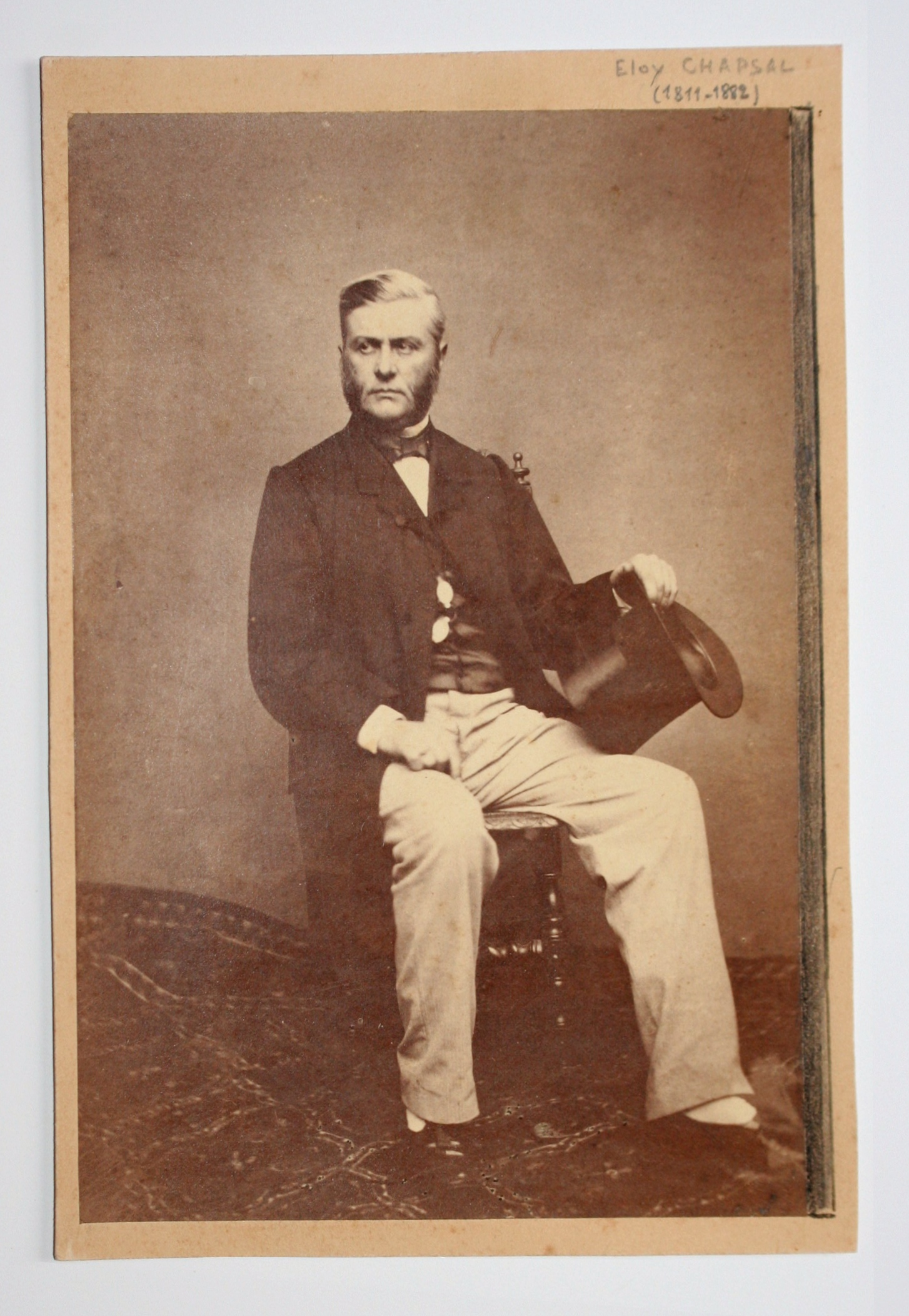 portrait of Eloy Chapsal